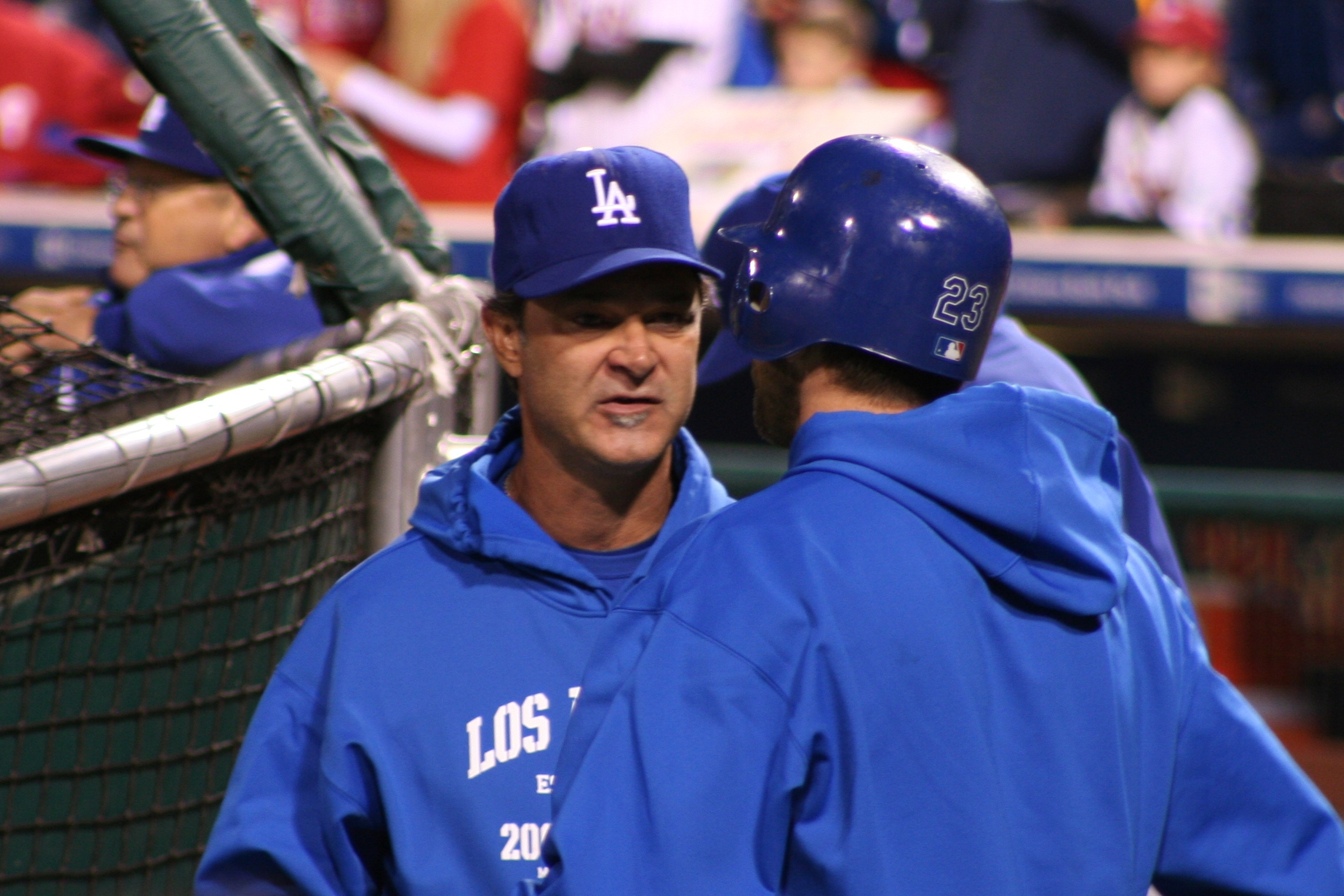 Don Mattingly, hitting coach with the Los Angeles Dodgers, talks with a hitter before a game.